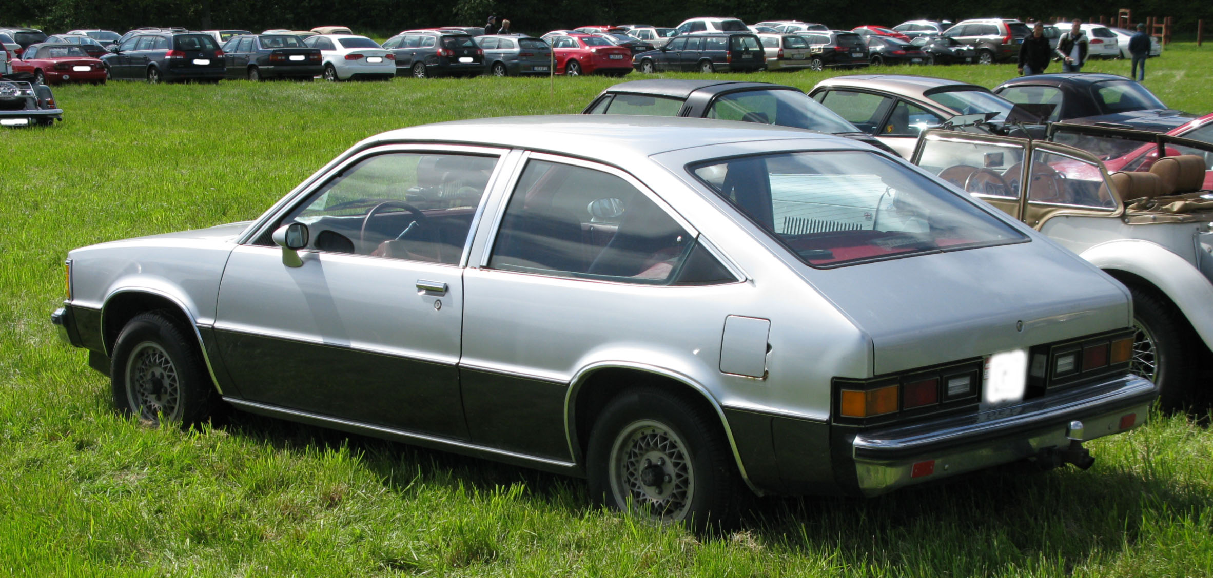 1980 Chevrolet Citation Event: Tjolöholm Classic Motor 2015